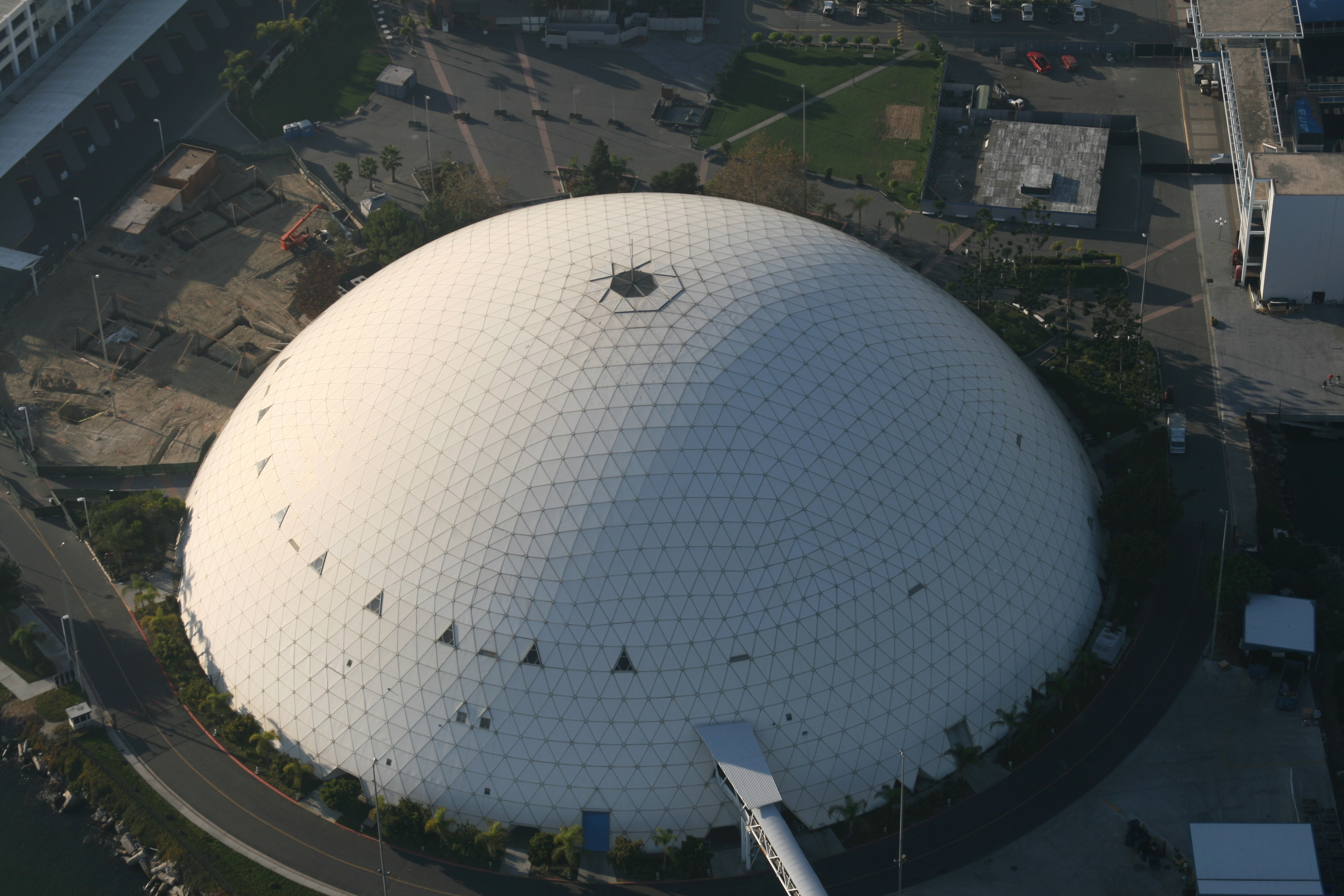 Used to house the Spruce Goose, now used for cruise ship loading.